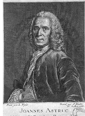 Portrait of French physician Jean Astruc (1684-1766)